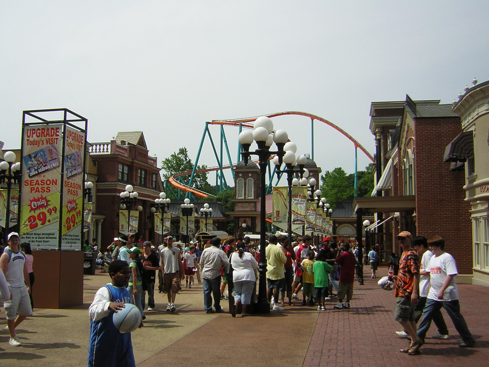 Main gate at Six Flags Over Georgia, USA.